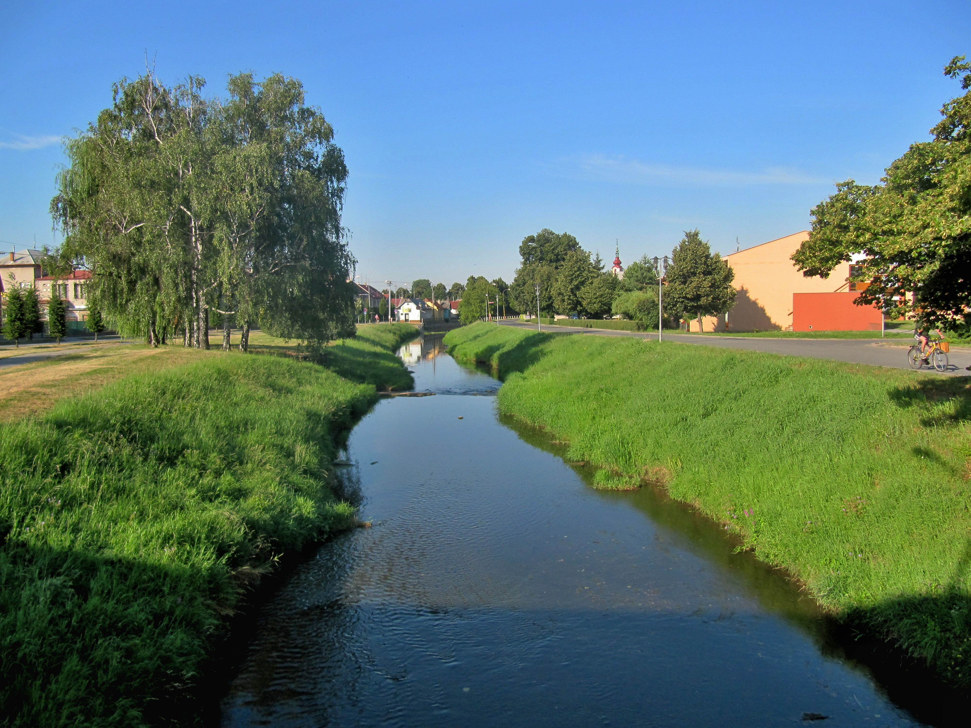 Hulín, Kroměříž District, Czech Republic. Rusava River.